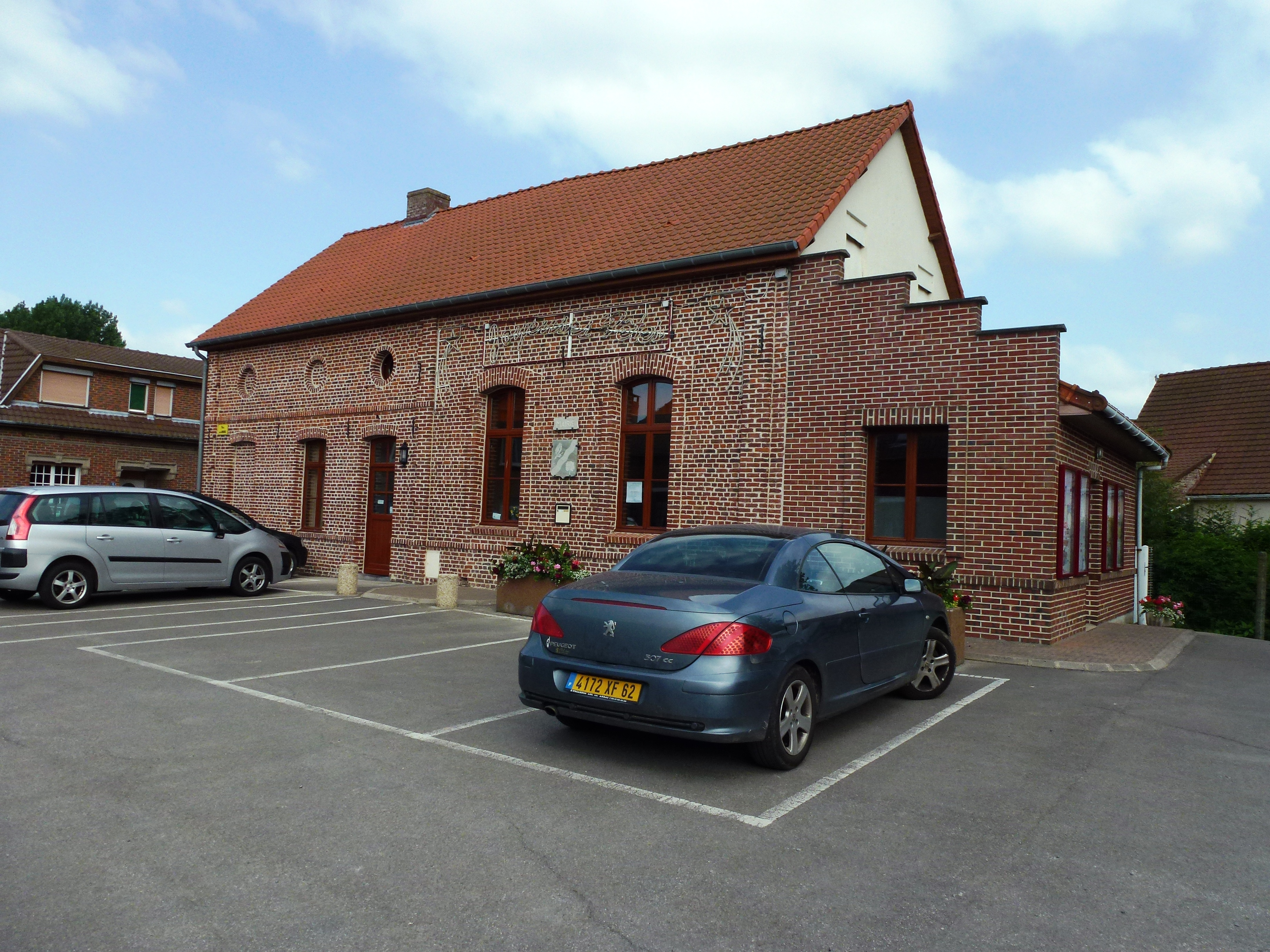 Lespesses (Pas-de-Calais, Fr) mairie